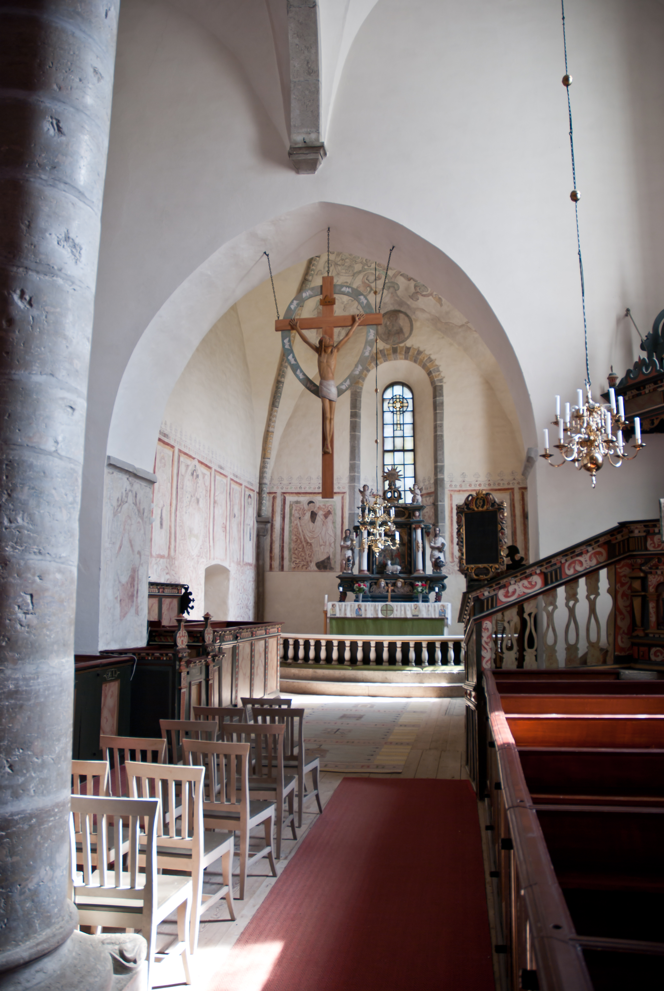 Interior of Othem church on Gotland.